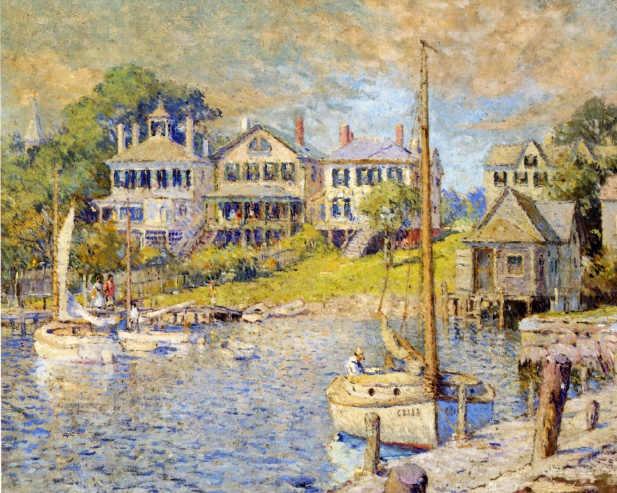 At Edgartown, Martha's Vineyard, Colin Campbell Cooper, oil on canvas, 29 x 36 in